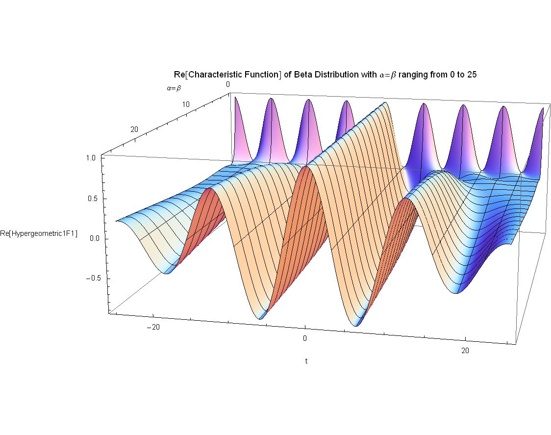 Re(CharacteristicFunction) Beta Distribution for alpha=beta from 0 to 25 Back - J. Rodal